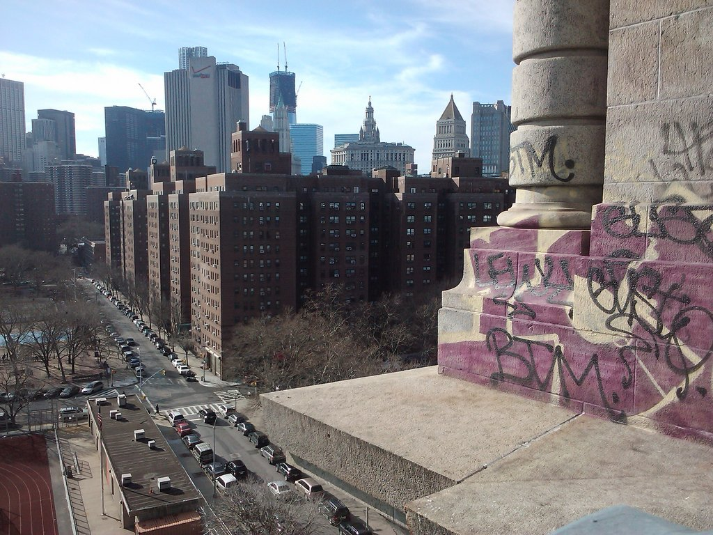 Public housing in the Lower East Side in the foreground viewed from the Manhattan Bridge.